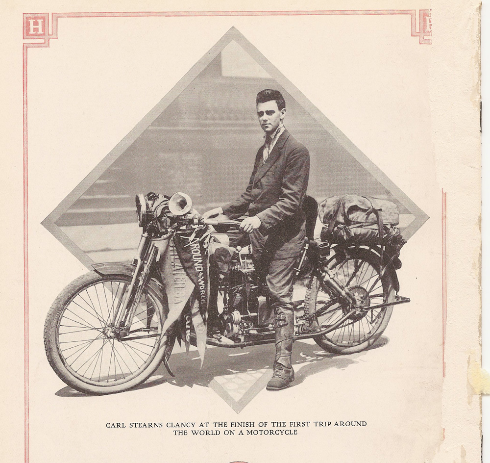 Publicity photo of Carl Stearns Clancy on Henderson Four motorcycle, at end of world circumnavigation in 1913. Alternate description in Kawasawki "Accelerate" magazine here